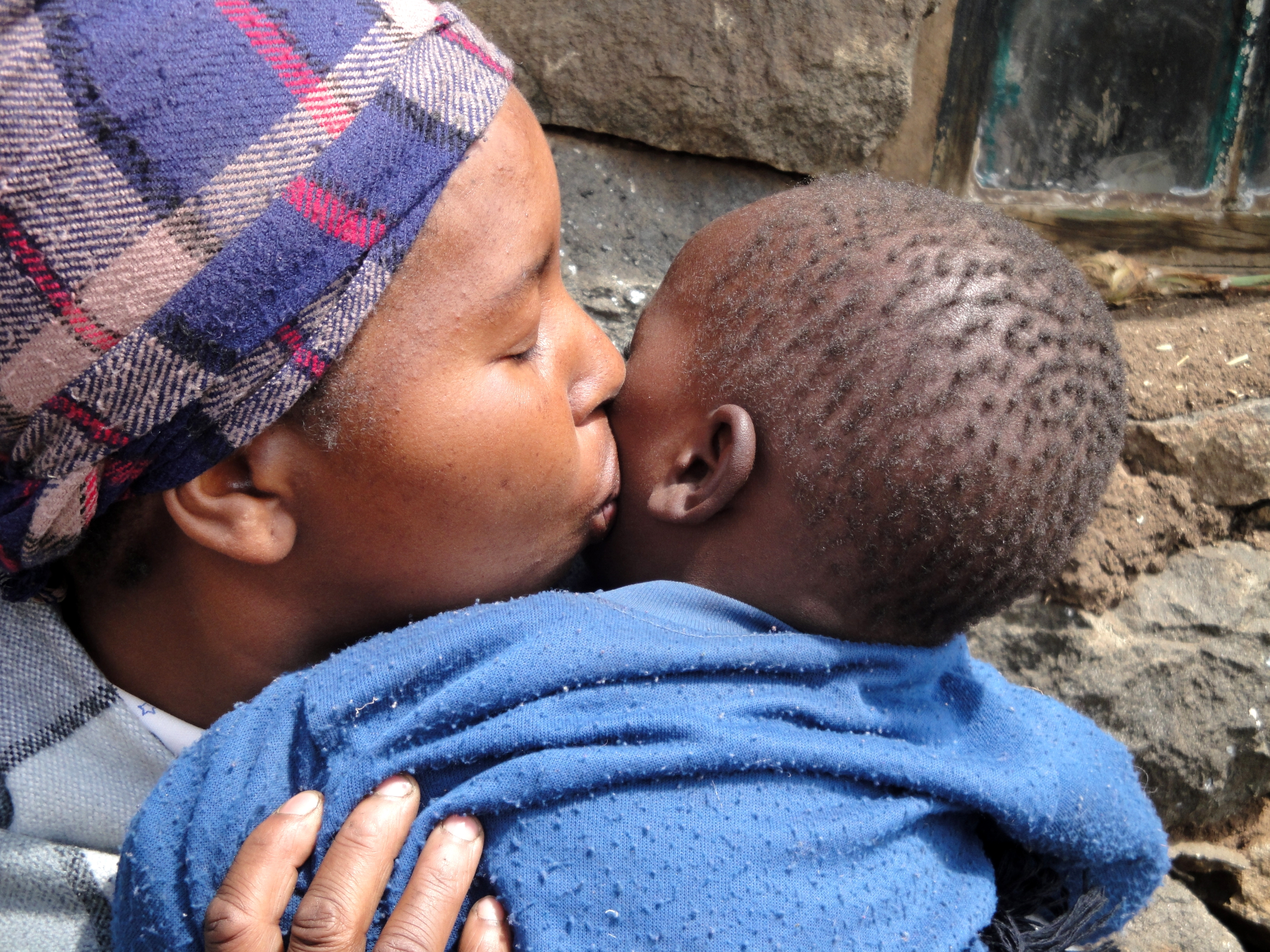 Maamohelang Hlaha tenderly kisses her young son Rebone. An HIV-positive mother of four, Hlaha’s village is inaccessible by vehicles, and is a three-hour hike from the nearest health clinic. She receives HIV treatment through the Riders for Health program, which is funded by USAID and run by the Elizabeth Glaser Pediatric AIDS Foundation. As part of the program, pony riders and motorcyclists transport blood tests, drugs, and supplies to Lesotho’s remote mountain health clinics. The system allows people to receive HIV test results sooner, access life-saving drugs, and ensure an uninterrupted supply of medication. Rebone, whose name means “we have witnessed,” was born HIV-free in August 2008. Photo Credit: Reverie Zurba, USAID/South Africa